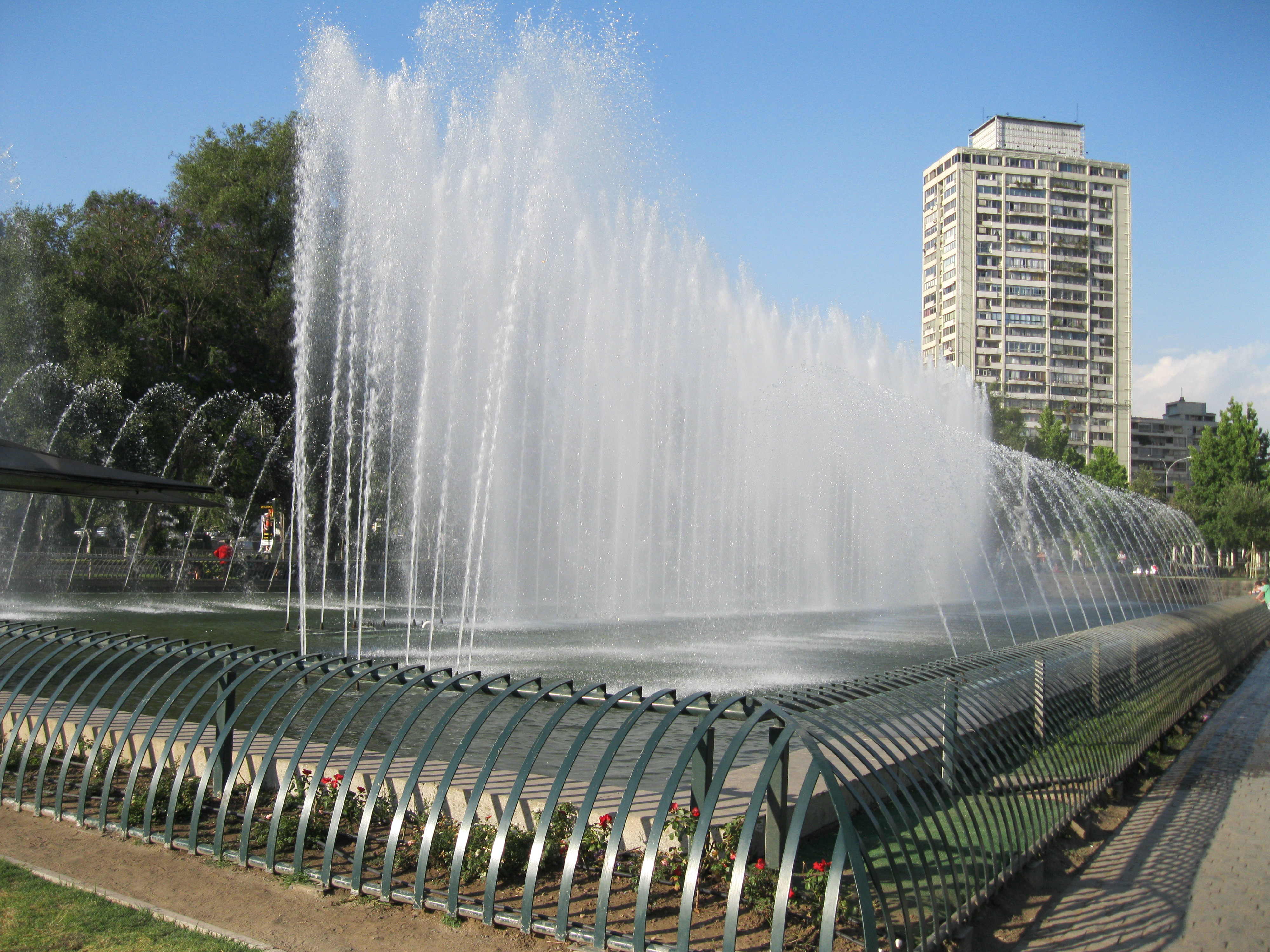 Parque La Aviación